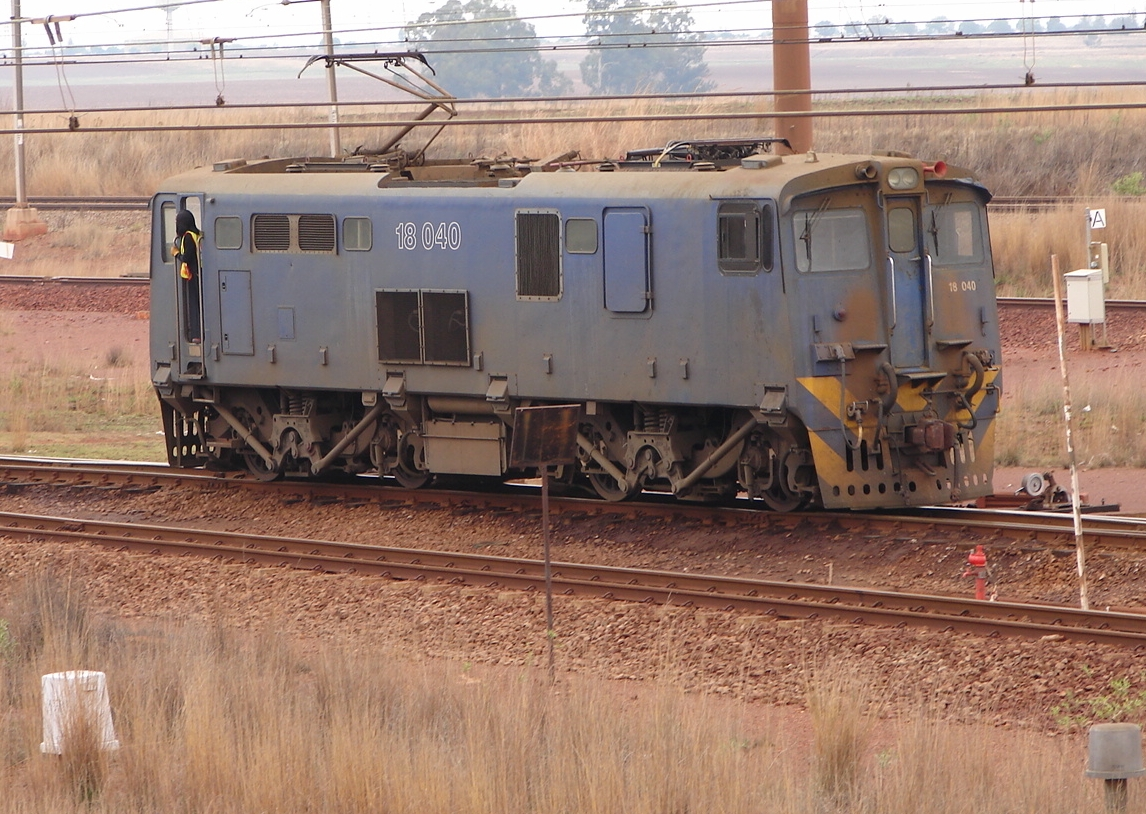 Spoornet Class 18E Series 1 18-040 Location: Sentrarand, Gauteng History: Rebuilt in 2002 from Class 6E1 Series 10 E2131